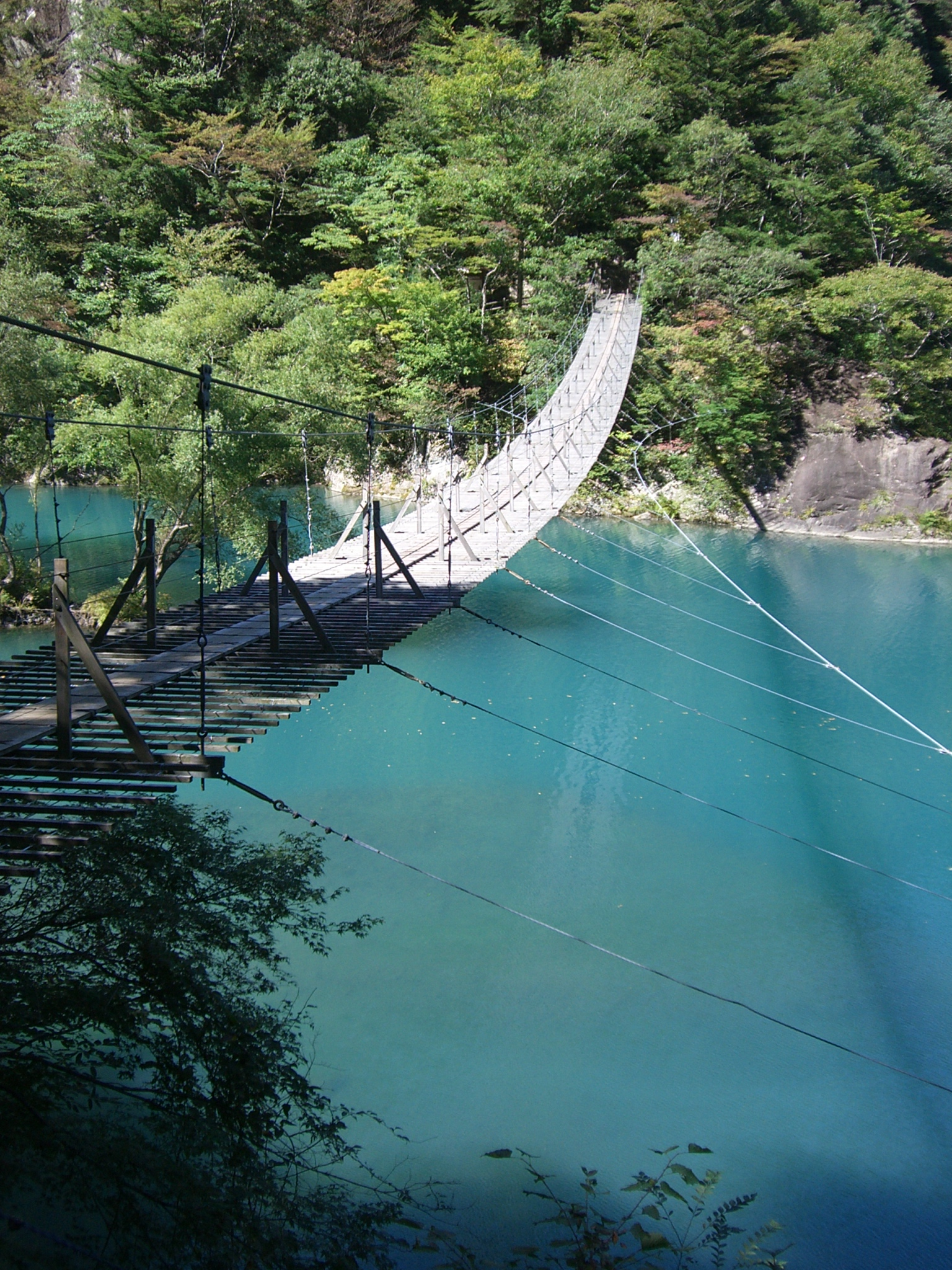 Yume-no-tsuribashi (suspension bridge) in Shizuoaka Prefecture, Japan.